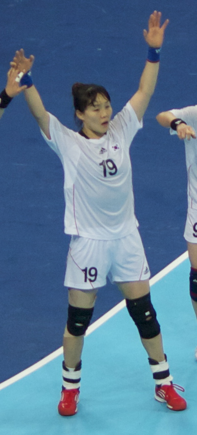 South Korea vs. Spain